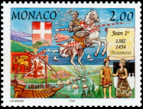 John I of Monaco